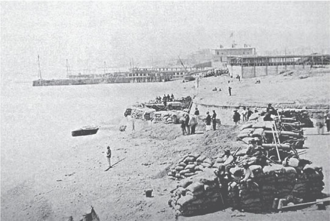 Peruvians preparing their defences against the Spanish bombardment of Callao on 2 May 1866. Photograh from Museo Naval del Perú